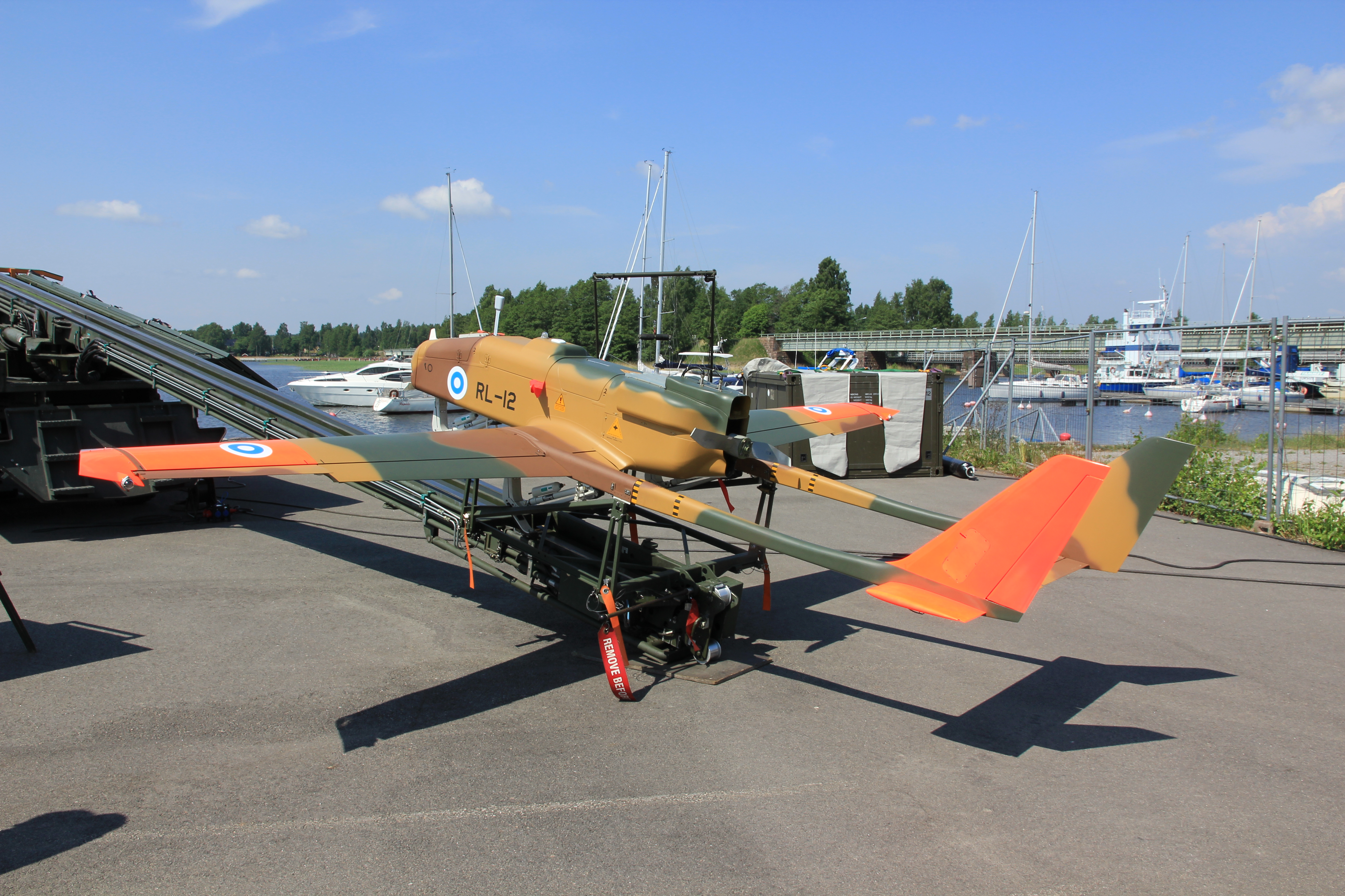 RUAG Ranger UAV (RL-12) on launch catapult on display during Finnish Defence Forces 2013 Flag day in Ekenäs harbour.